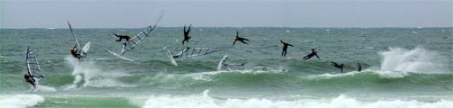 Wave jumping wipeout. While attempting a forward loop in overpowered storm conditions off the coast of Santander, Spain, windsurfer Justin Wheeler gets catapulted into a high double flip. Photo and sequence editing by , Santander, Spain, 2001.